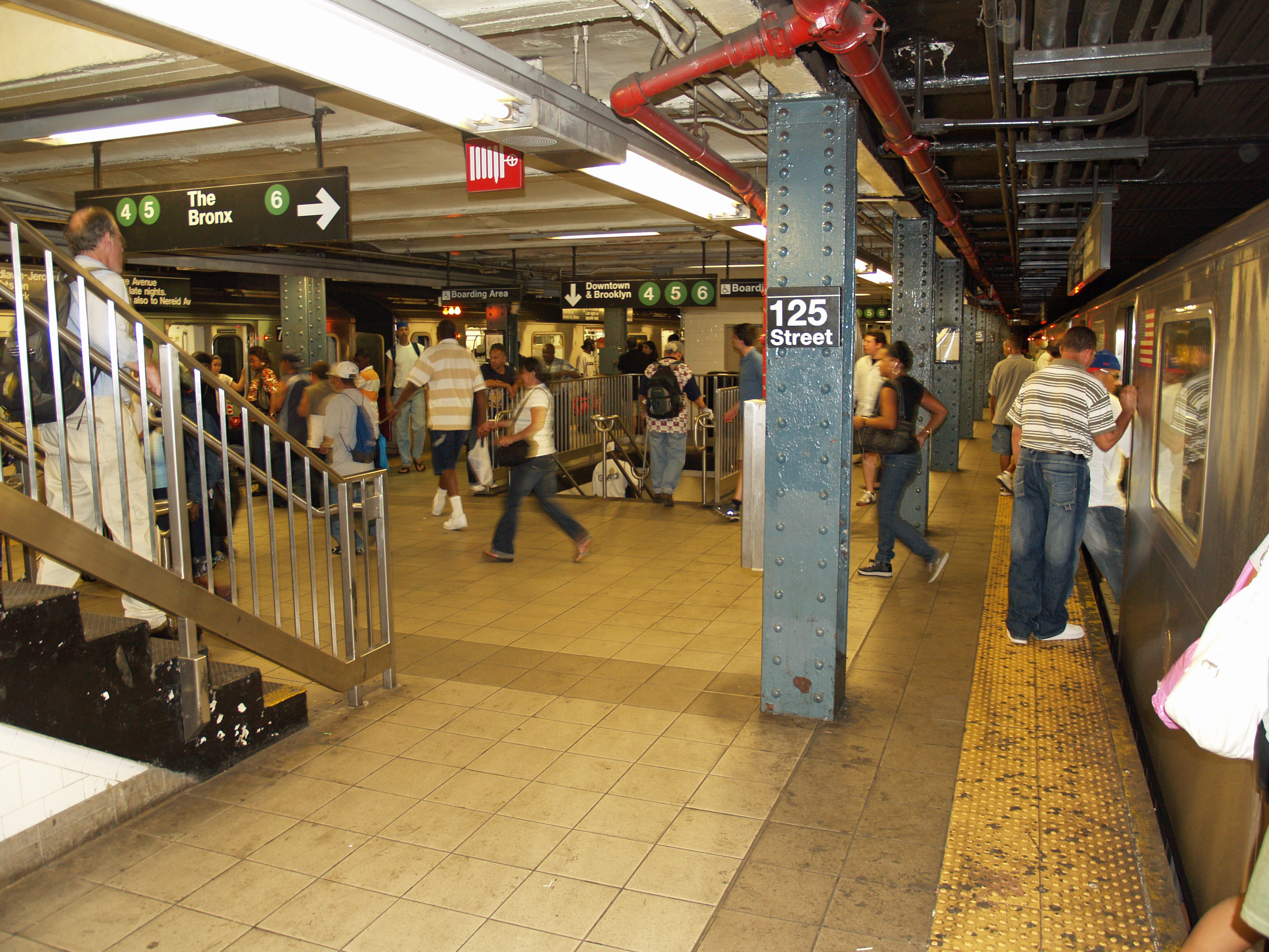 125th Street (IRT Lexington Avenue Line) uptown platform